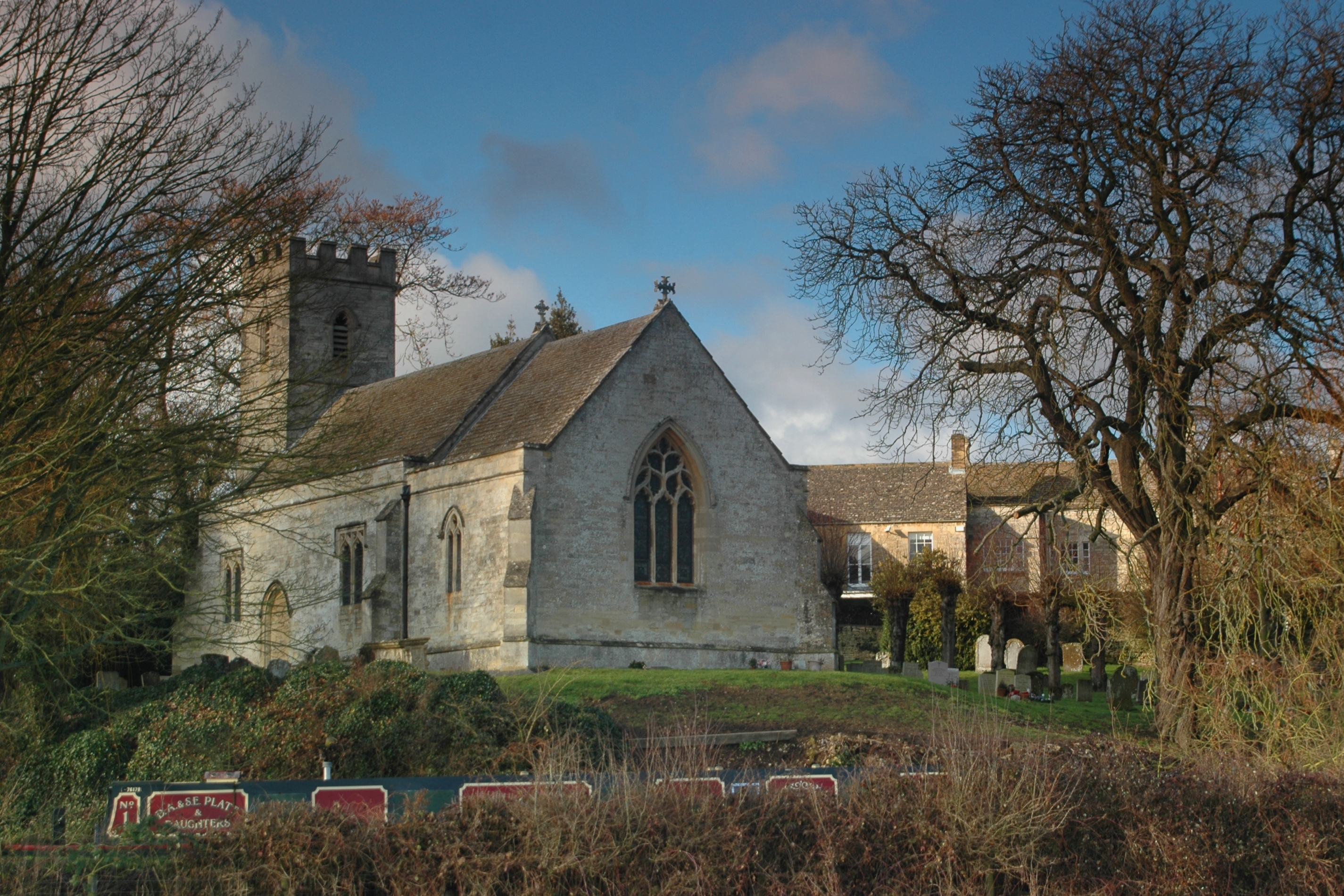 Church of England parish church of the Holy Cross, Shipton-on-Cherwell, Oxfordshire, England: view from the southeast.